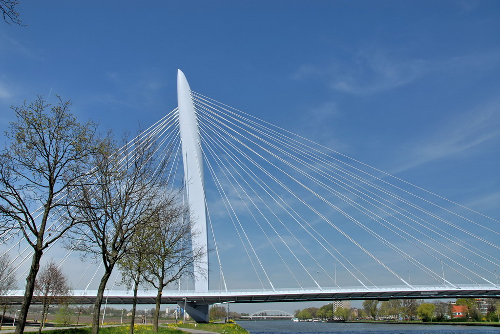 Prins Claus bridge over The Amsterdam-Rijncanal, (92m in length). Came in to use in june 2003. Architect Ben van Berkel who also signed for the Erasmusbridge in Rotterdam.